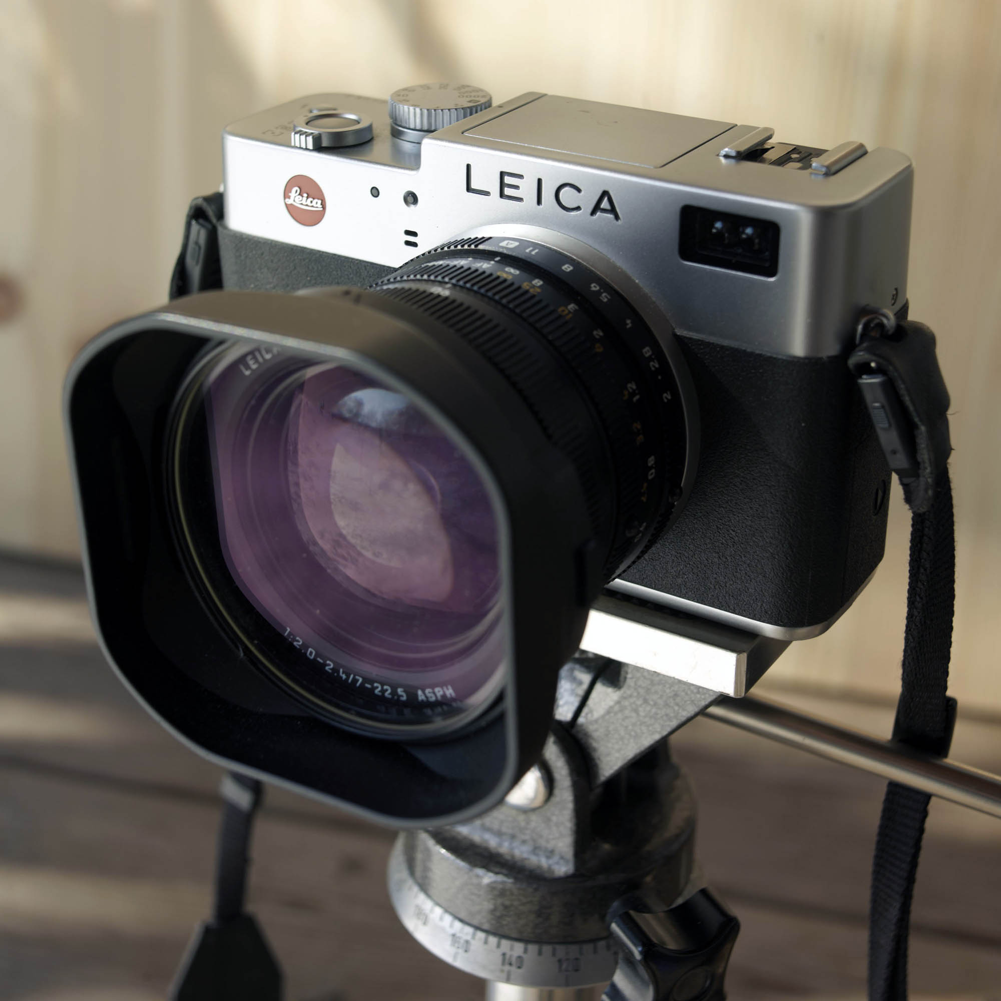 Leica Digilux 2 with DC Vario-Summicron 1:2.2-2.4/7-22.5 ASPH